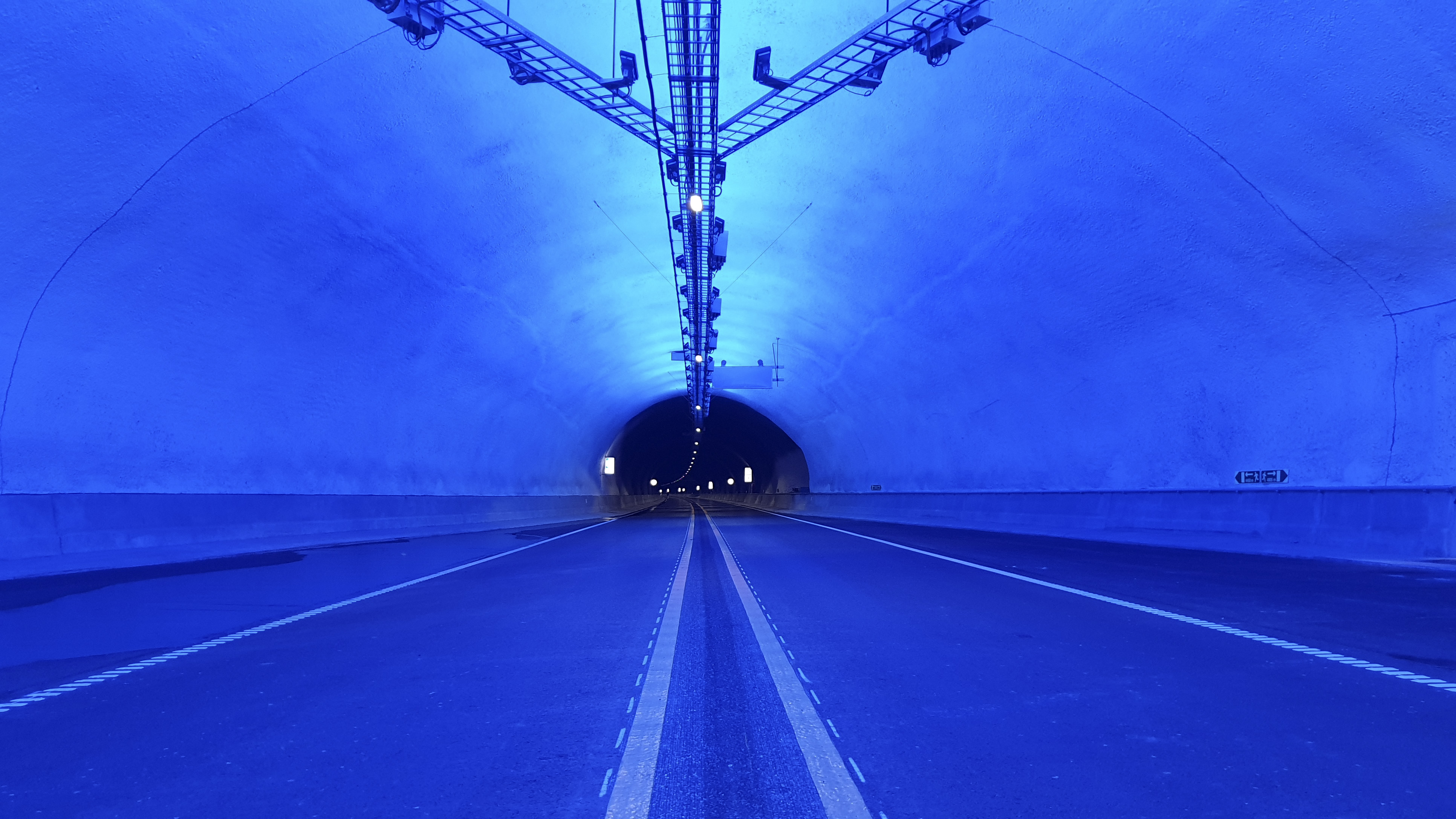 The Mælefjell tunnel, on European route E134 between Seljord and Hjartdal in Telemark, Norway. The blue hall in the middle of the 9,3 km long tunnel.